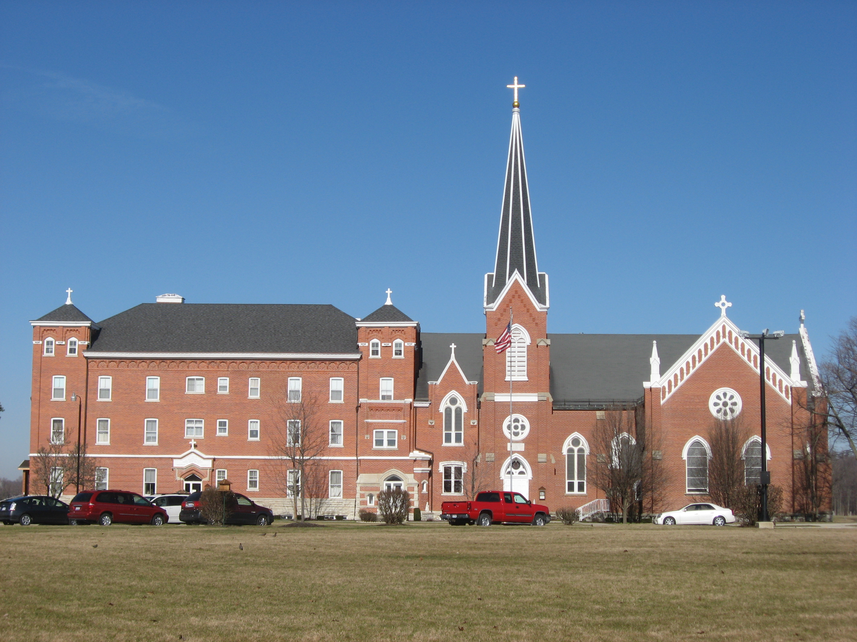 Front of the Maria Stein Convent, located on the western side of St. Johns Road slightly north of Maria Stein, an unincorporated community in Marion Township, Mercer County, Ohio, United States. Built in 1846, the convent complex (also known as the Shrine of the Holy Relics) has been added to the National Register of Historic Places as a part of the Cross-Tipped Churches of Ohio Thematic Resources.